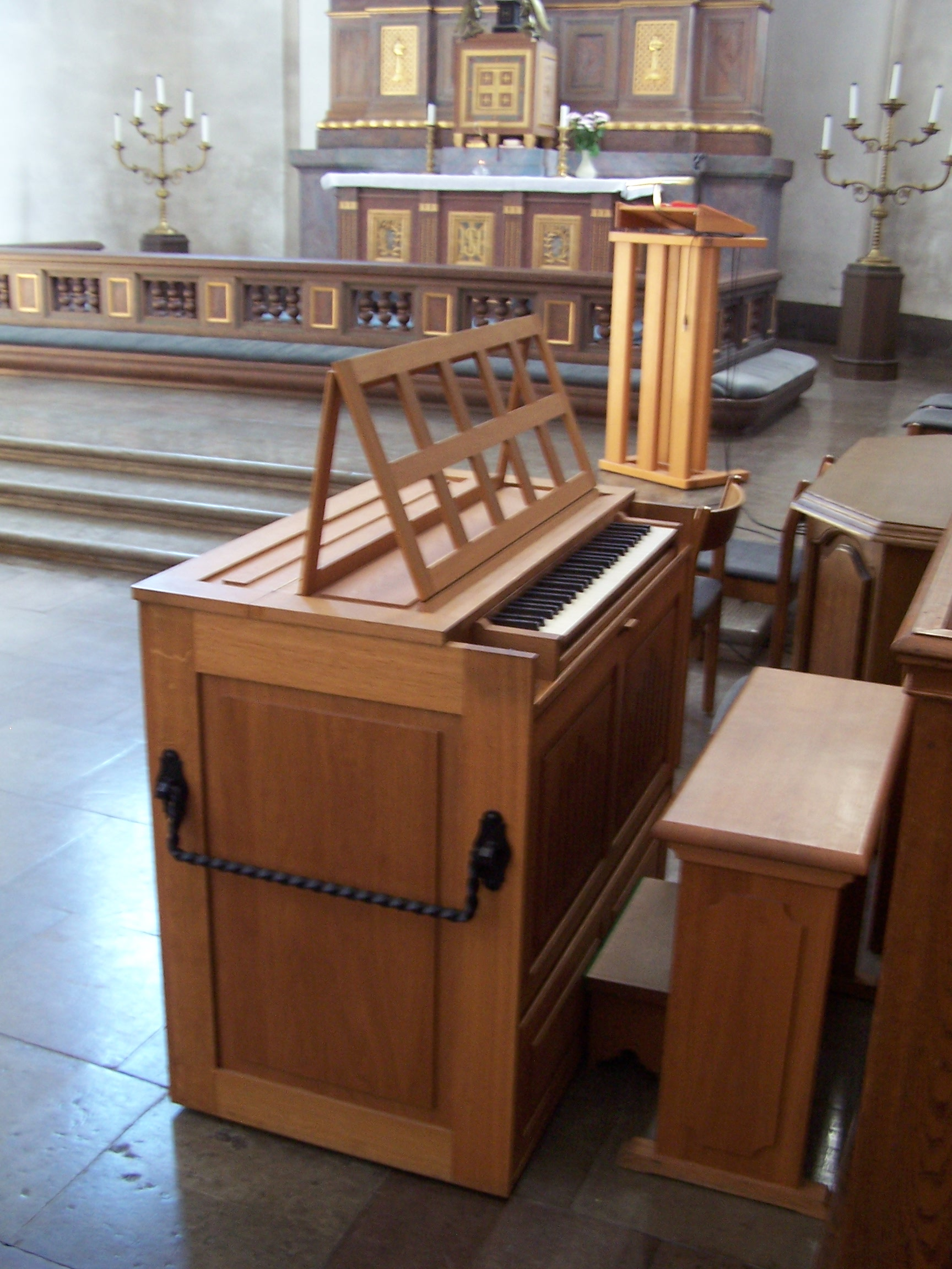 Fredrikskyrkan (Fredrik's church) in Karlskrona - Choir organ)